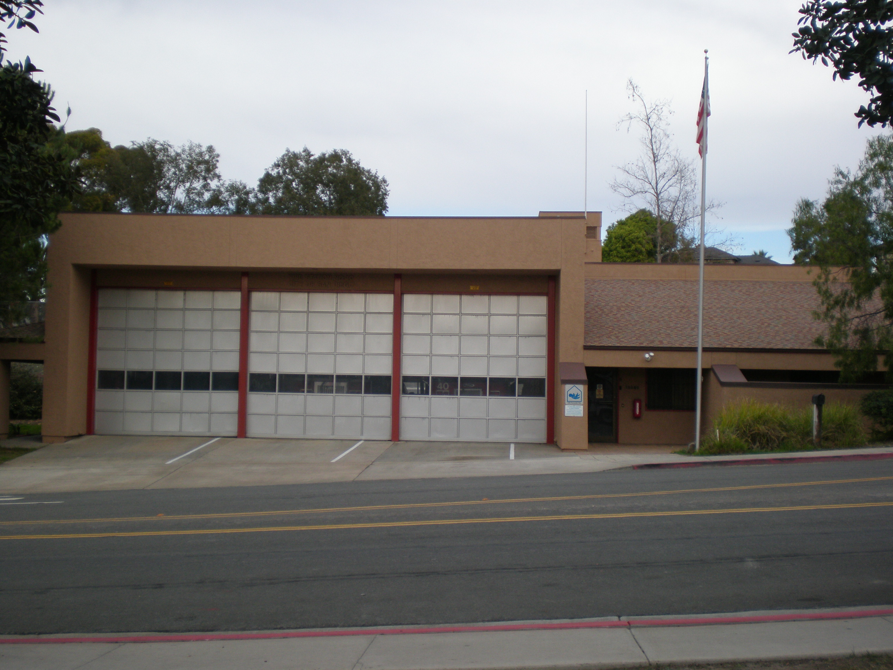 SDFD Fire Station # 40 in Rancho Penasquitos in San Diego, Ca